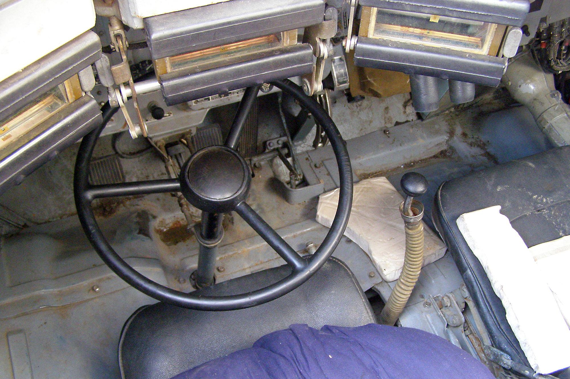 Moscow OMON BTR-80